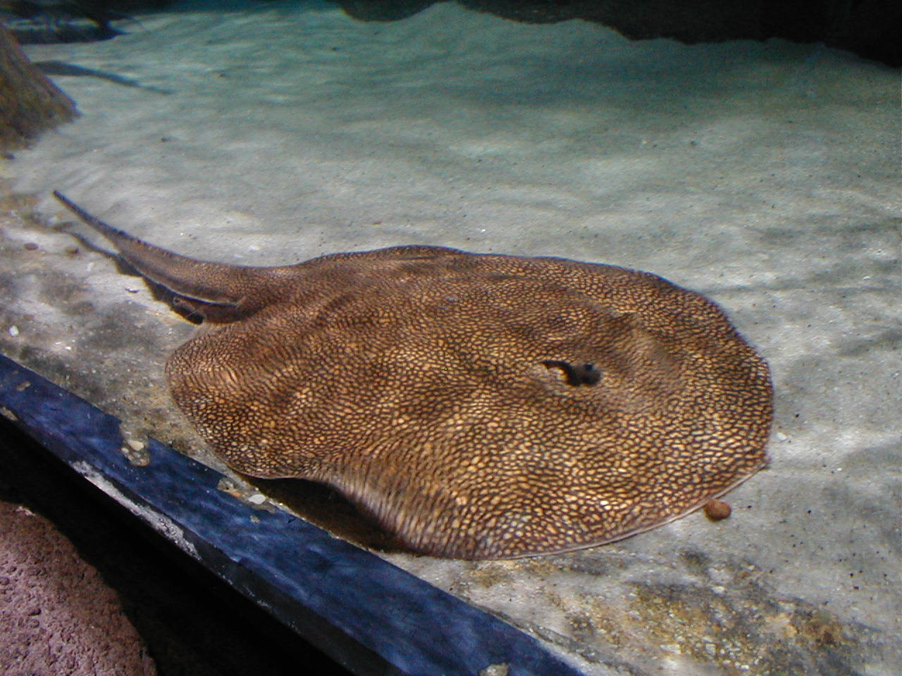 Vermiculate river stingray (Potamotrygon castexi) at Ripley's Aquarium in Myrtle Beach, SC.